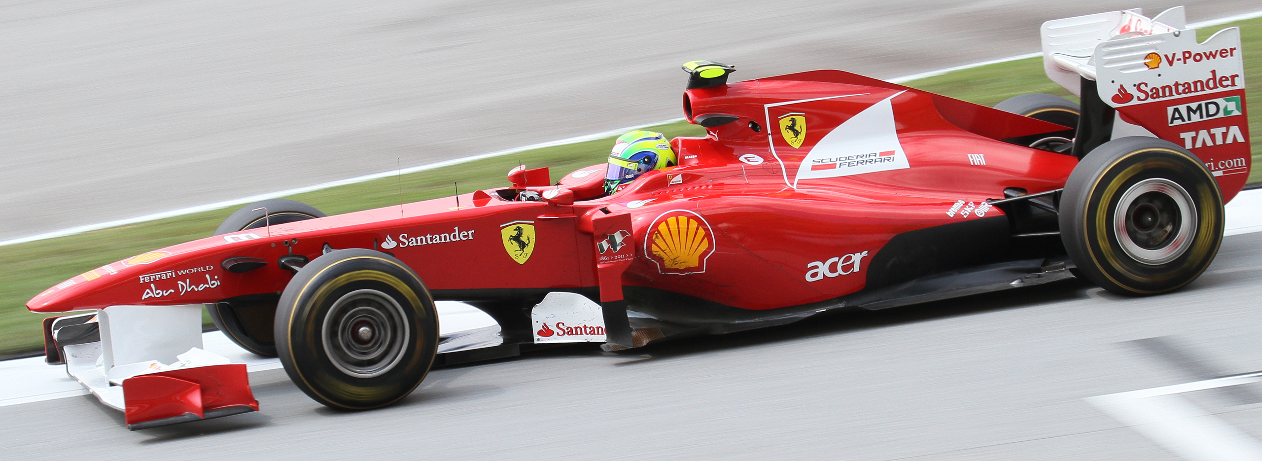 Formula One 2011 Rd.2 Malaysian GP: Felipe Massa (Ferrari) during the second practice session on Friday.